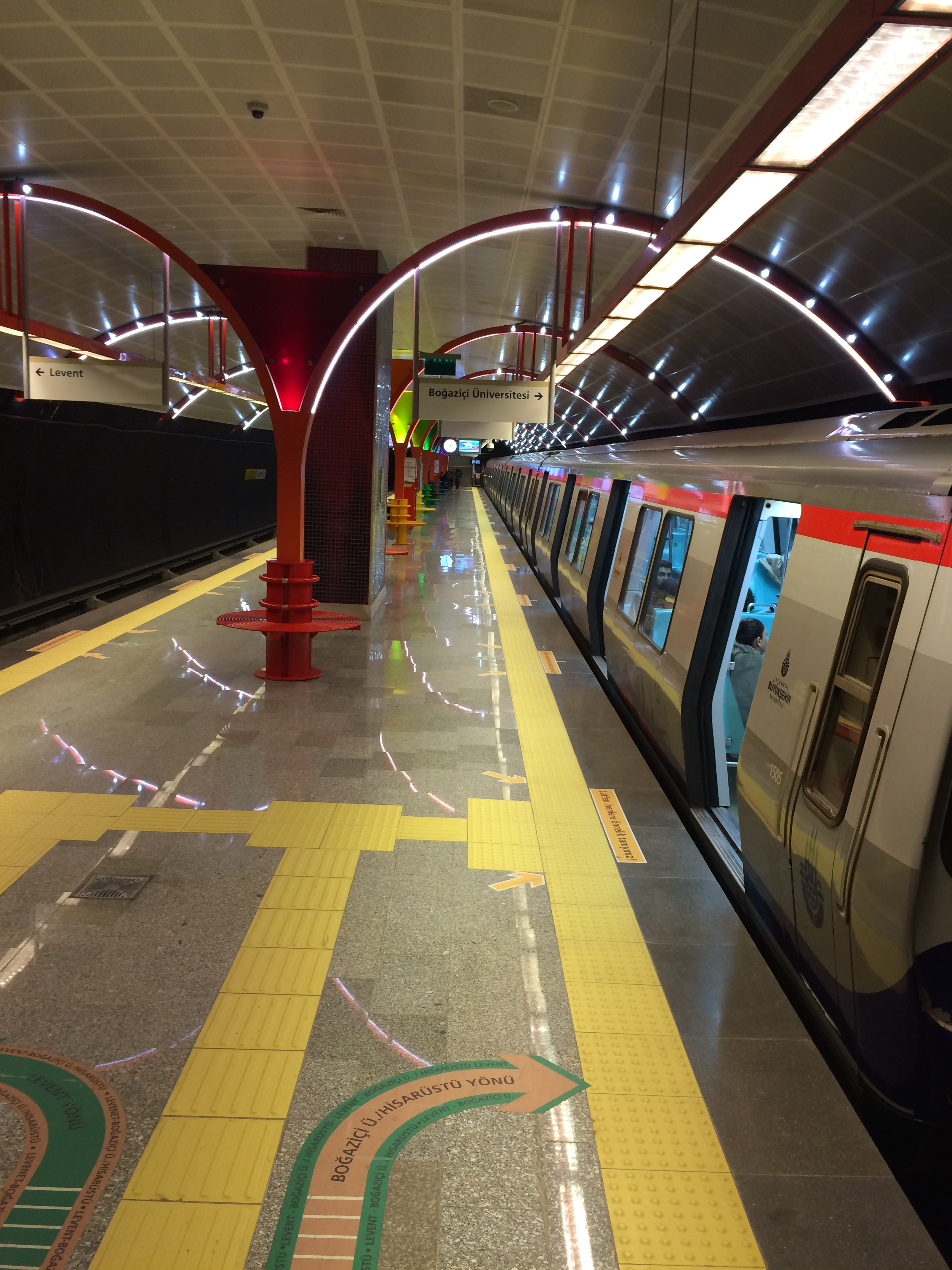 İstanbul Metro, M6 Levent – Hisarüstü/Boğaziçi Üniversitesi line, Nispetiye station